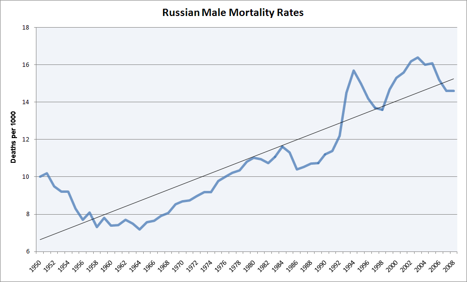 Chart of the male death rate in Russia from 1950-2008. Data based on [1], [2]